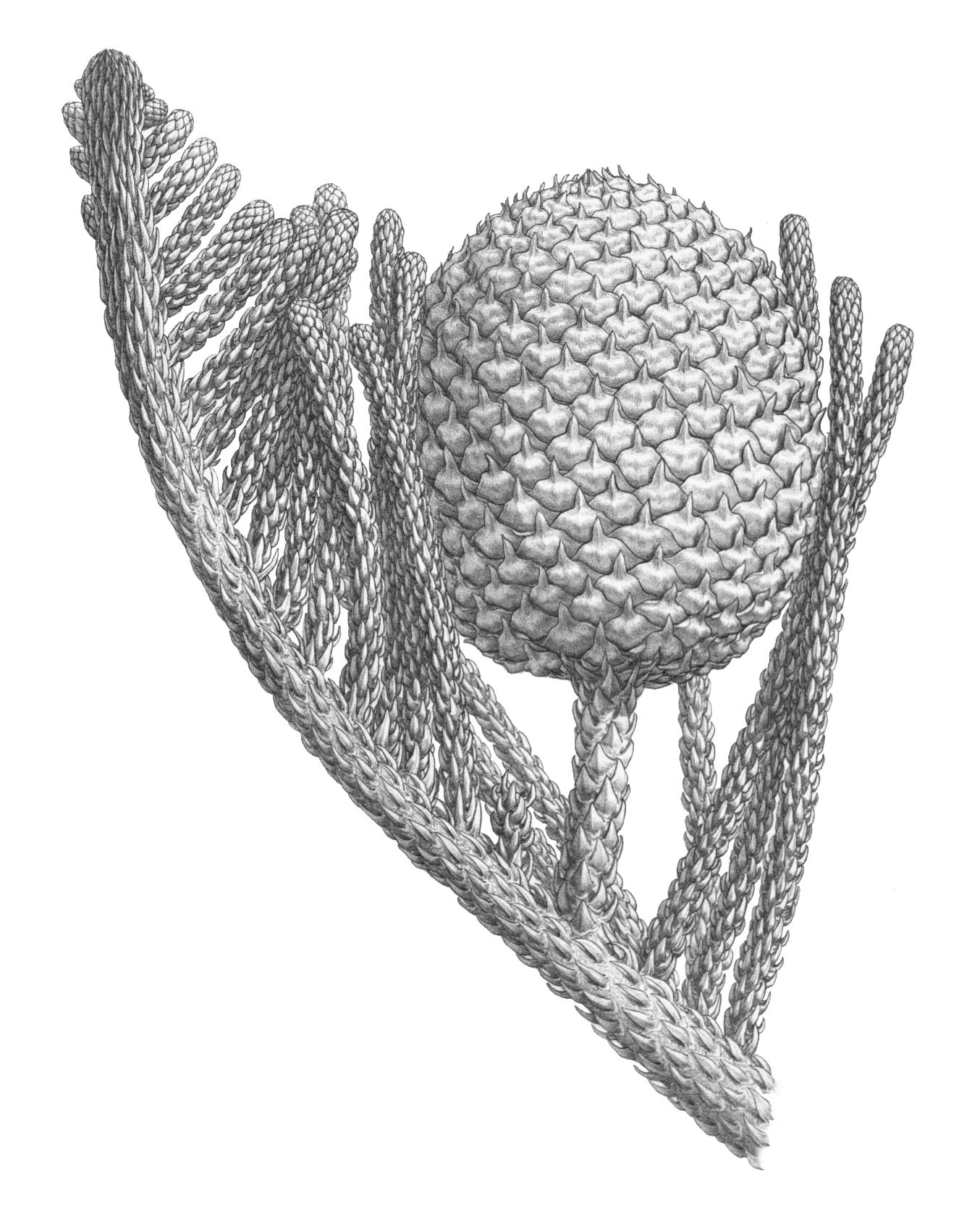 Araucaria subulata